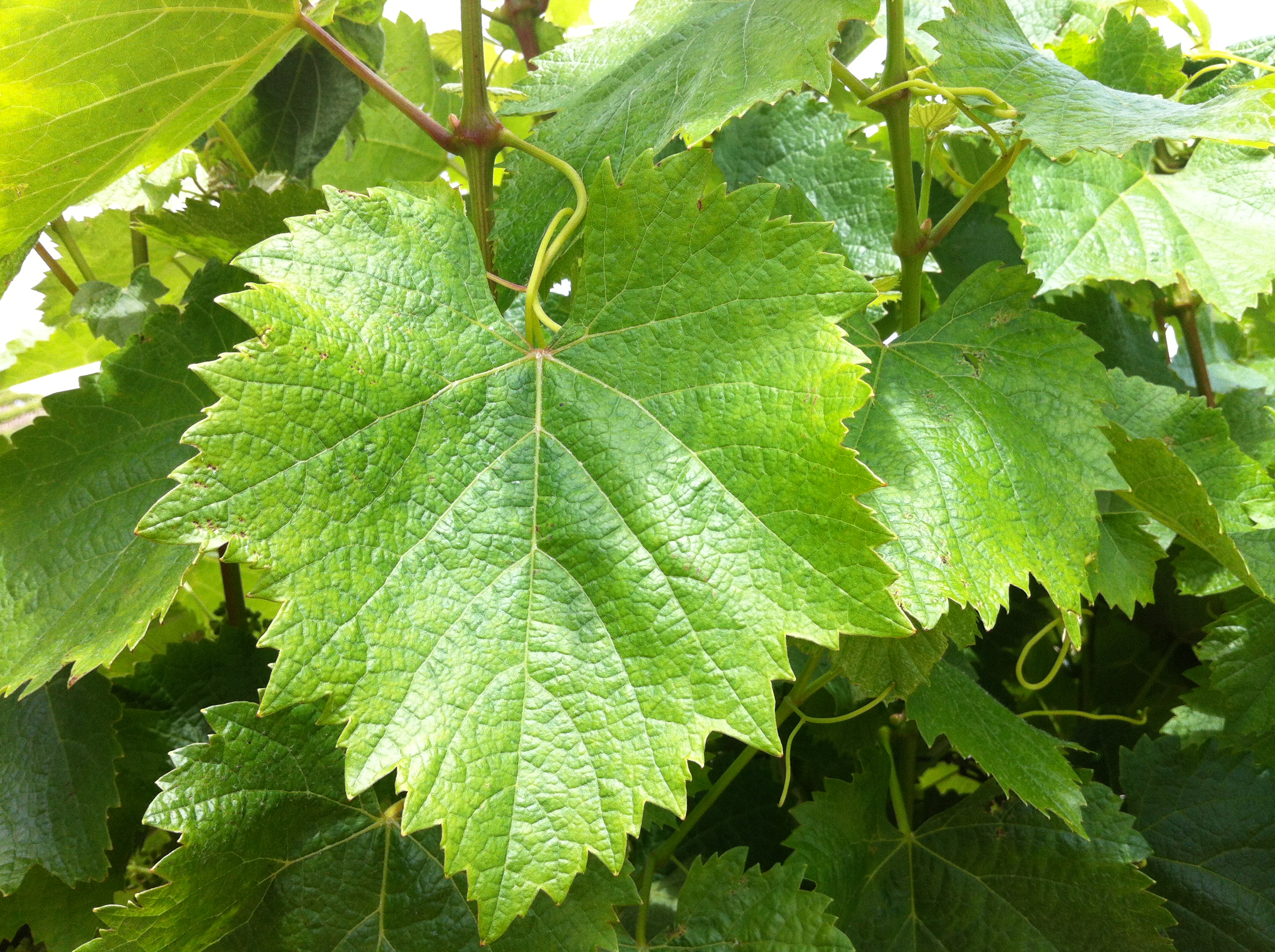 Close up of Malbec leaf